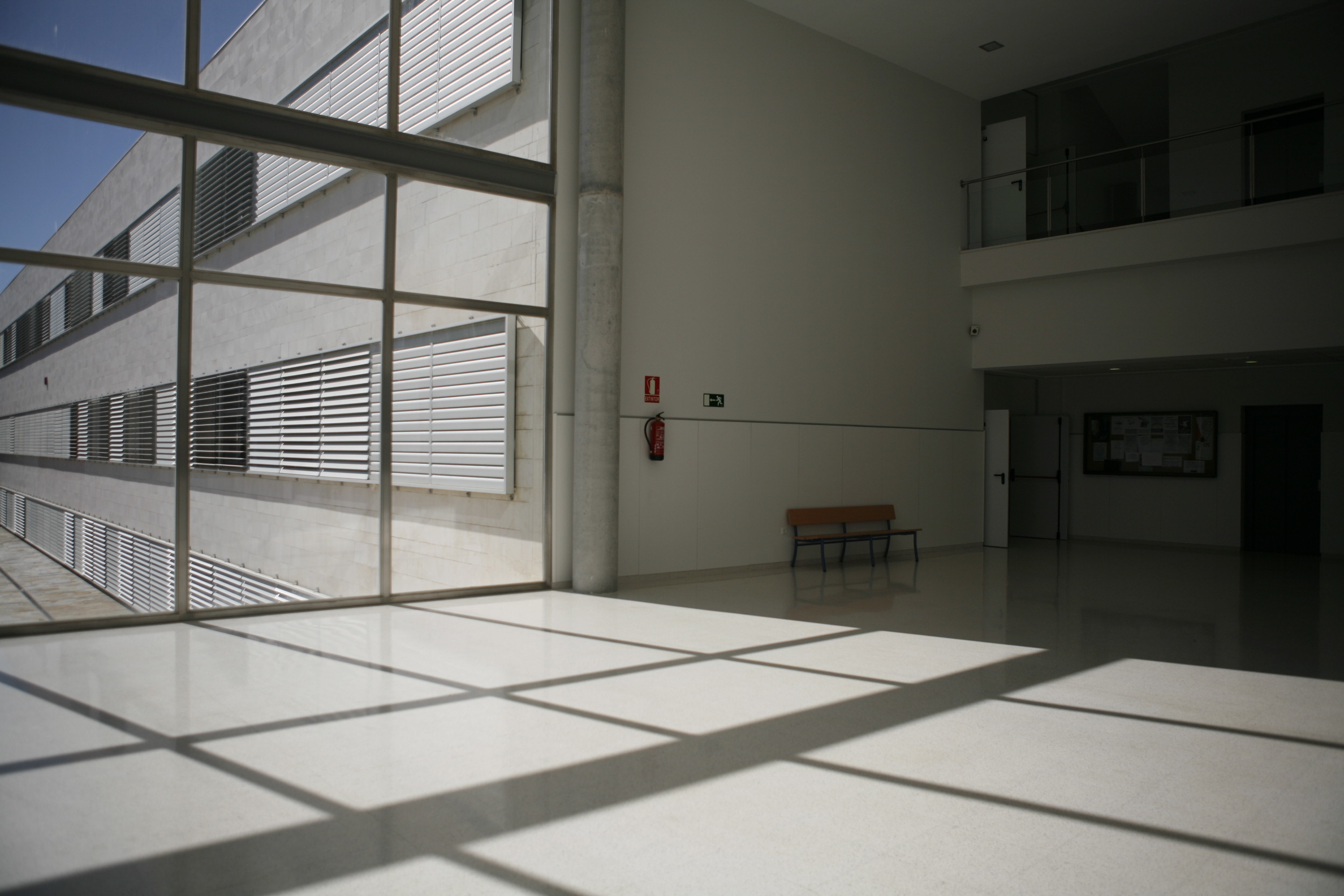 Hall de la Esad de Málaga.